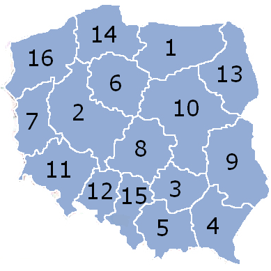 Polish voivodeships, numbered 1-16